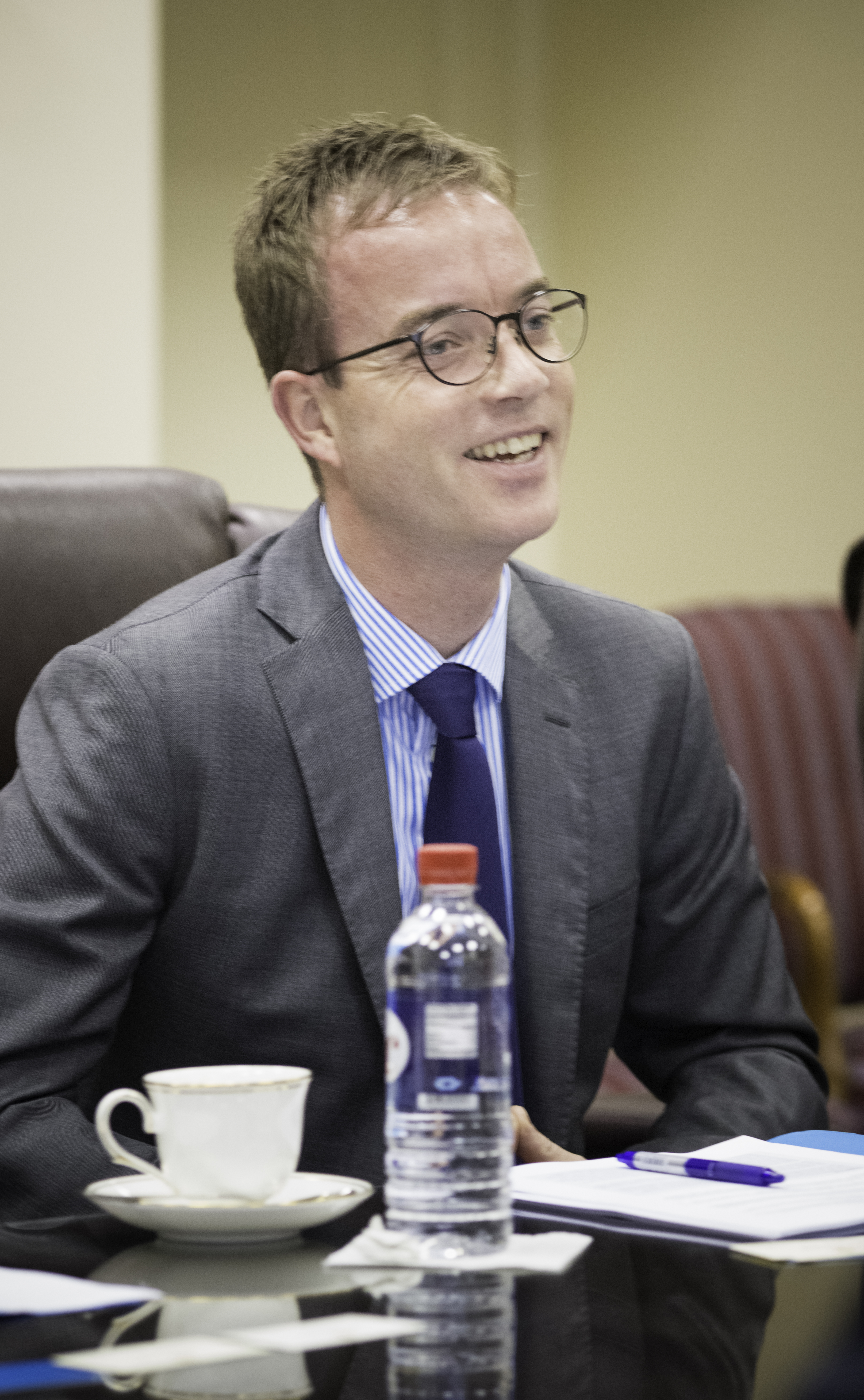 Minister of Environment and Food of Denmark, Esben Lunde Larsen met with Acting Deputy Agriculture Secretary Michael Scuse at the United States Department of Agriculture (USDA) in Washington, D.C. Thur. Sept. 29, 2016. Deputy Secretary Scuse and Minister Larsen discussed agricultural production, trade and food safety. USDA photo by Bob Nichols.